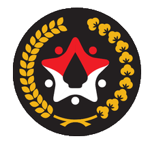 Logo of the Coordinating Ministry for Human Development and Culture of the Republic of IndonesiaBahasa Indonesia: Logo Kementerian Koordinator Bidang Pembangunan Manusia dan Kebudayaan Republik Indonesia